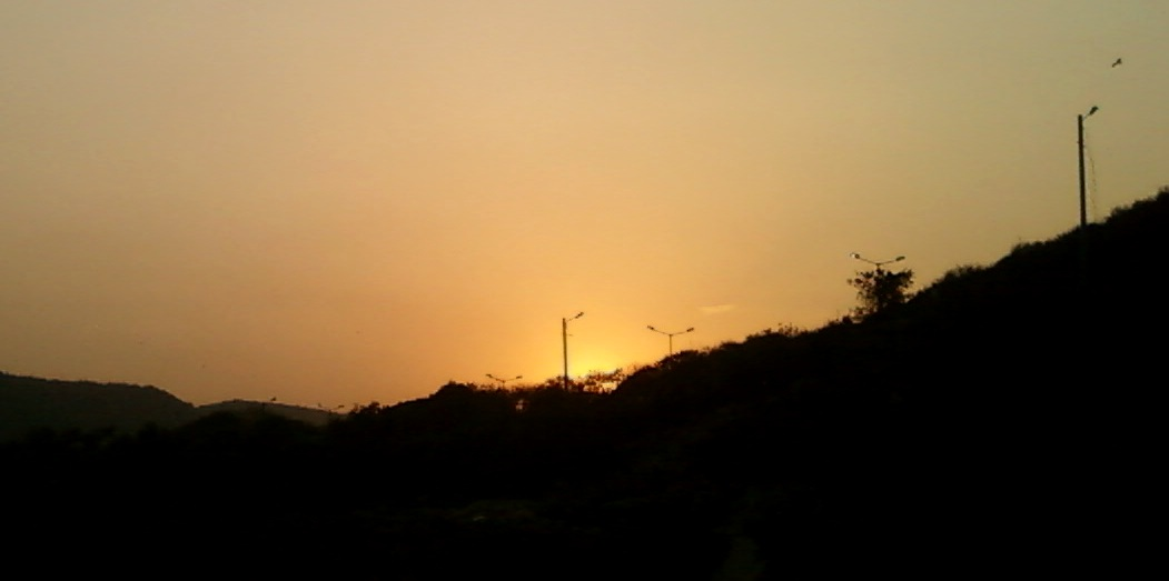 Sunset from Tenneti beach park in Visakhapatnam